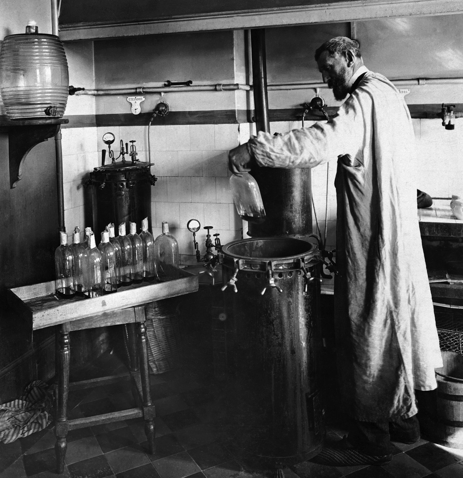 Louis Pasteur performing an experiment.